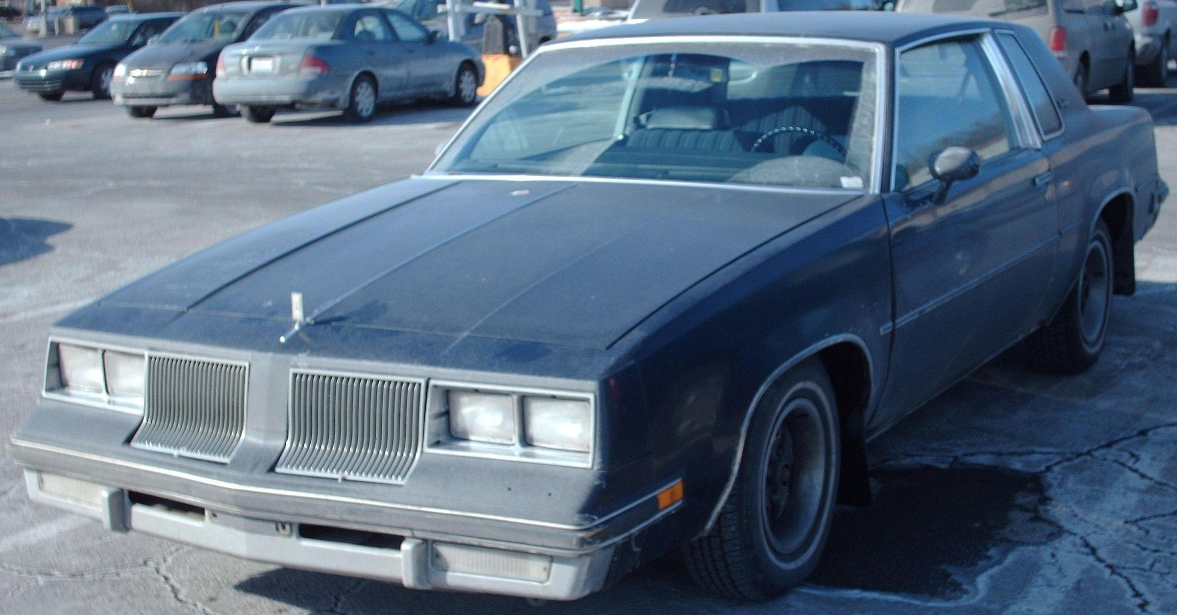 1986 Oldsmobile Cutlass Supreme photographed in Pointe Claire, Quebec, Canada.